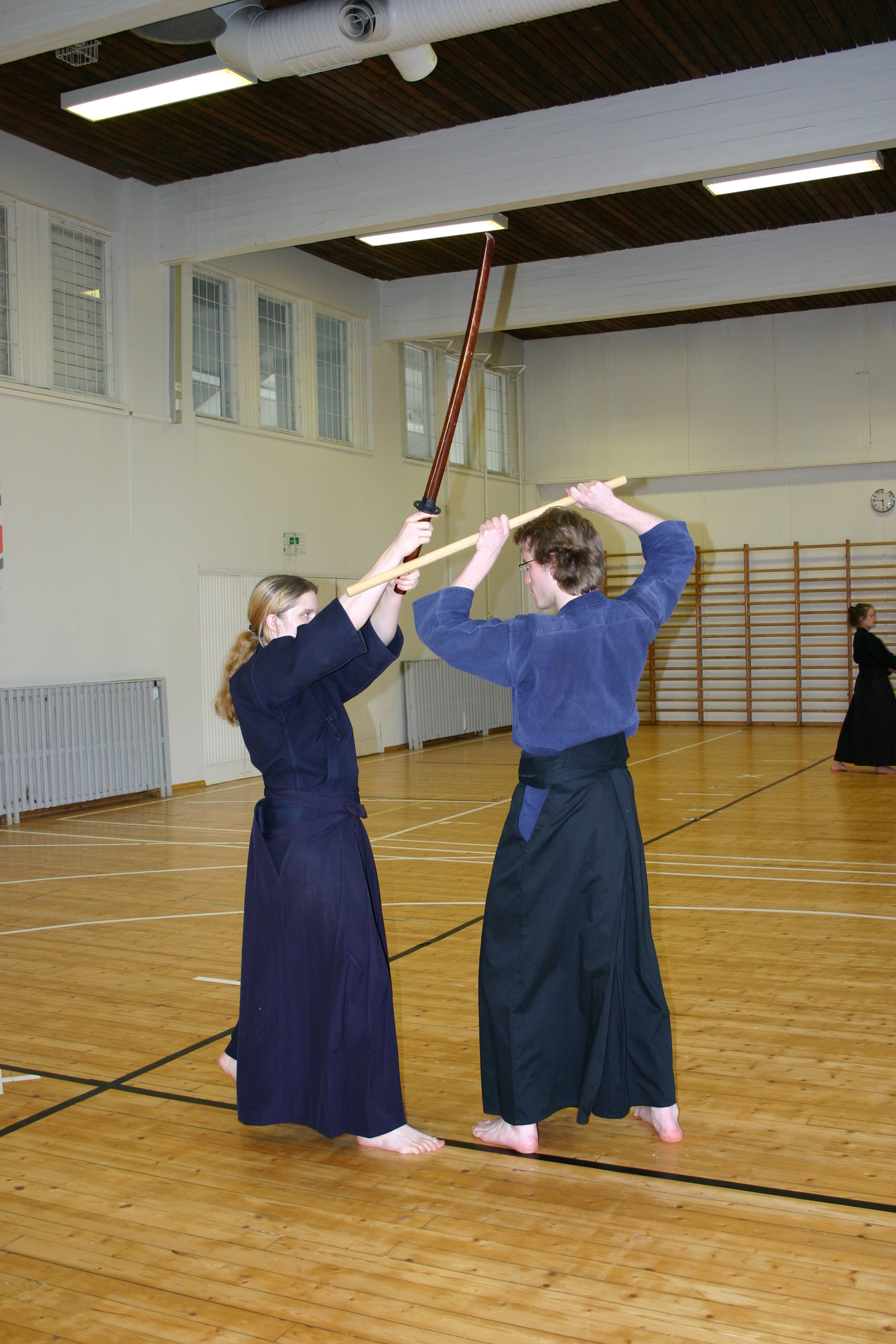 Uchida-ryū tanjōjutsu_kuritsuke